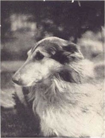 Profile shot of the rough collie Sunnybank Lad (1902–18), featured in three novels written by Albert Payson Terhune, including Lad, a Dog. Believed to be in the public domain as was taken before 1918 and was published in the first edition of Lad: A Dog in 1919. Filed with Library of Congress, gifted to it by Anice Terhune in 1944 after her husband's death.